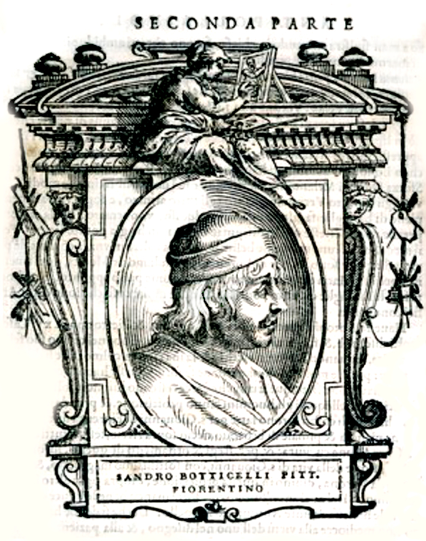 Illustratio from "Le Vite" by Giorgio Vasari, edition of 1568. For the artist portrayed see filename